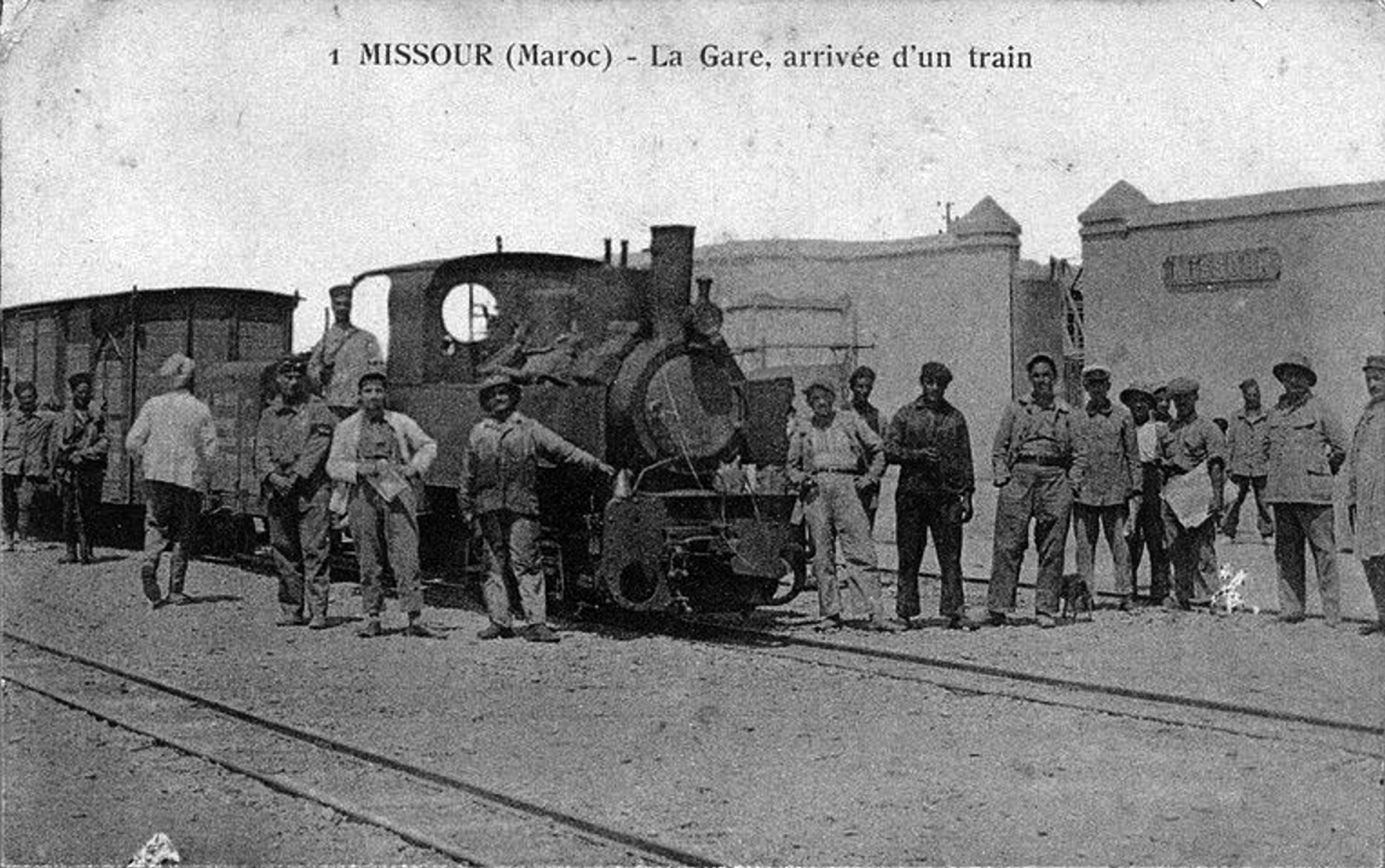 600mm gauge Decauville 0-6-0T locomotive and train, Morocco. Part of the French system Chemin de fer Militaire de Maroc in Morocco, built between 1905 and ~1930, and eventually extending to about 1700km on 60cm gauge. The loco is a Decauville Progres type 0-6-0T.